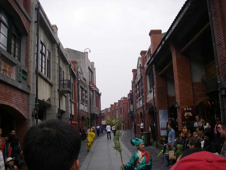 The restored early Taiwanese street in the National Center for Traditional Art in Yilan, Taiwan. 中文（台灣）: 台灣宜蘭縣國立傳統藝術中心中所復原的台灣早期街景